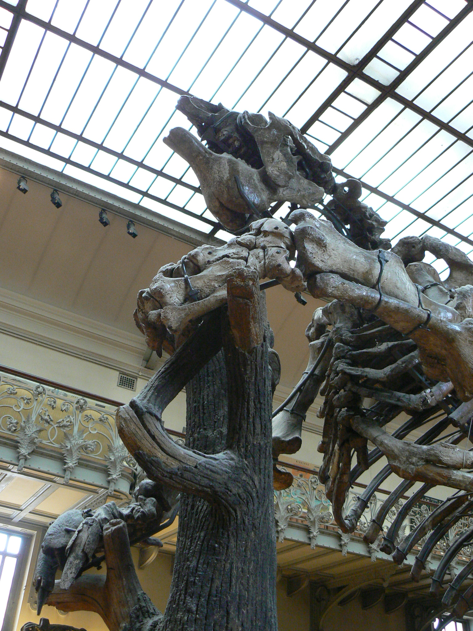 megatherium americanum